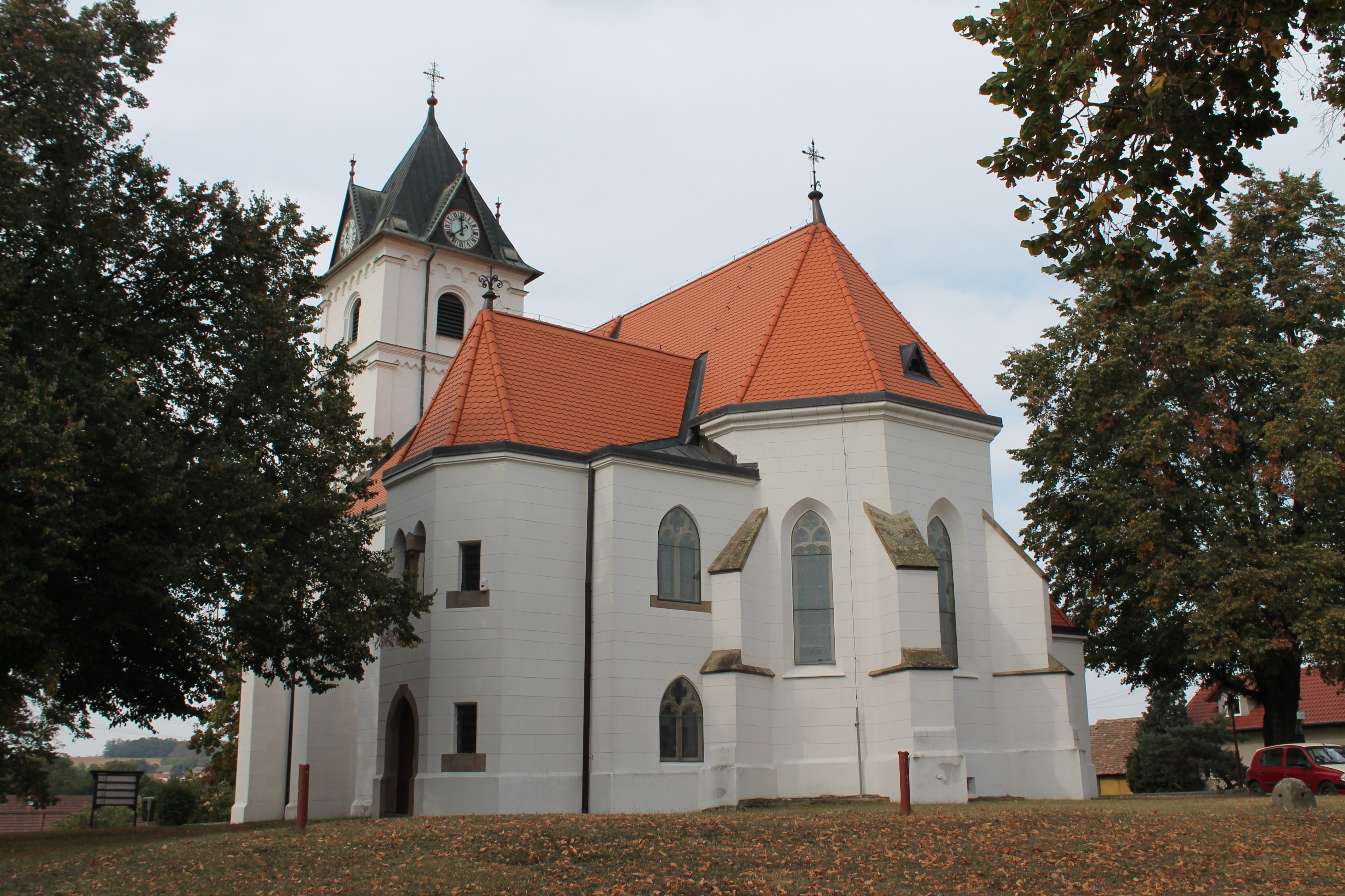 Church of St. John the Baptist, Višňové, Znojmo District, Czech Republic This photograph was taken during a group photography field trip by Brno Wikipedians: 2016-09-28.